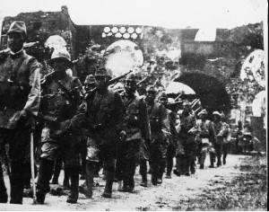 Xingzi County was occupied by Japanese Invaders on August 20, 1938.